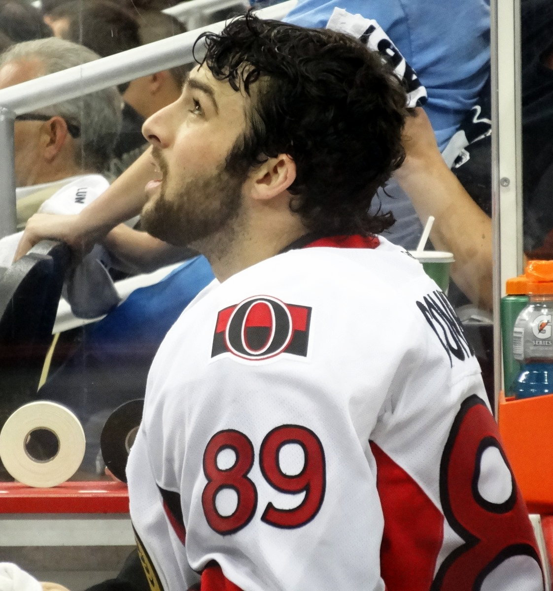 Ottawa Senators Cory Conacher forward during game two of their second round series against the Pittsburgh Penguins, May 17, 2013 at Consol Energy Center in Pittsburgh, PA.